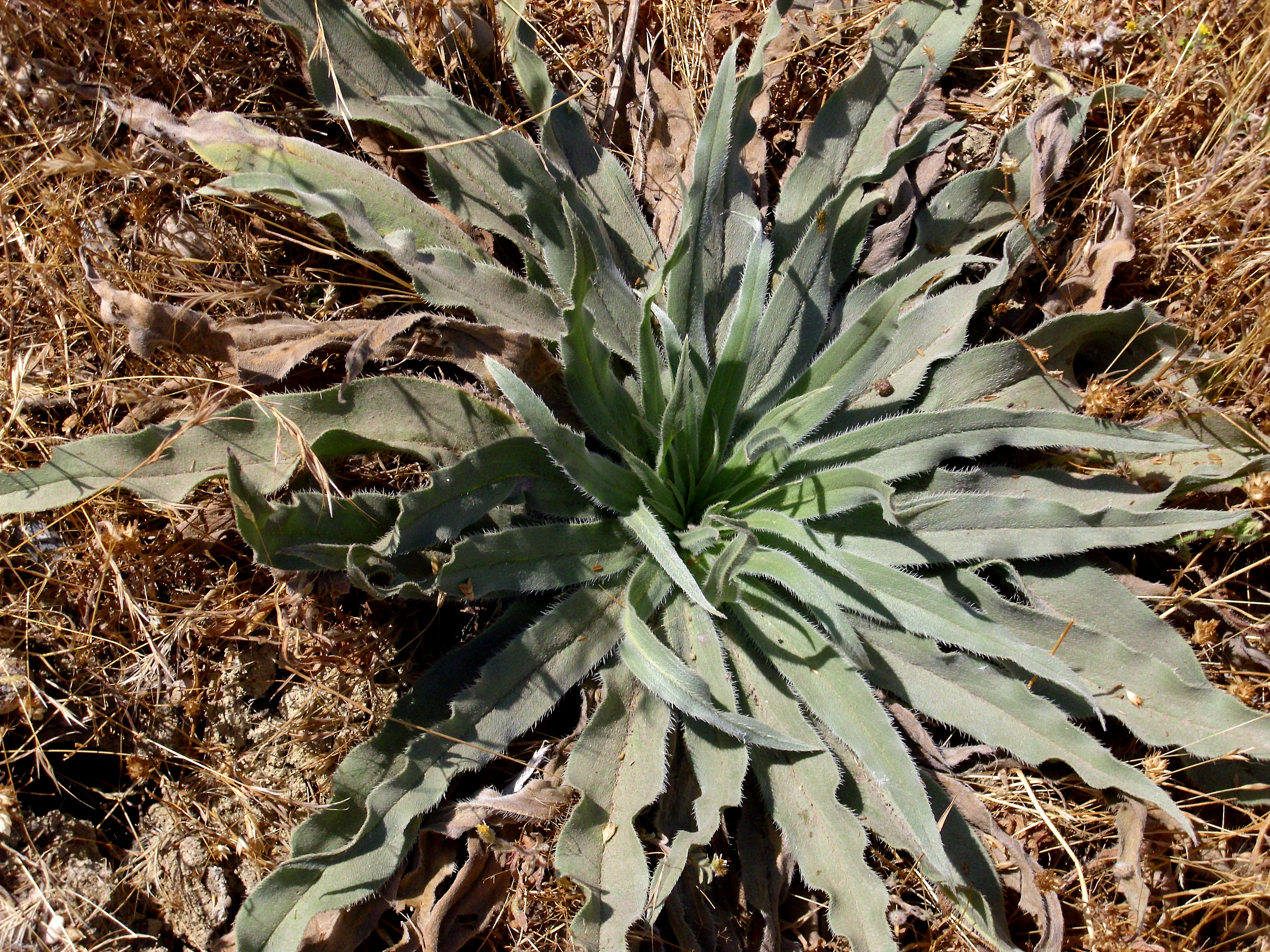 Echium boissieri first year folial-rosette, Mengibar, Jaen, Spain